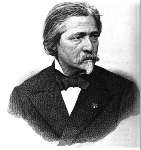 Portrait of the Belgian sculptor Joseph Geefs.